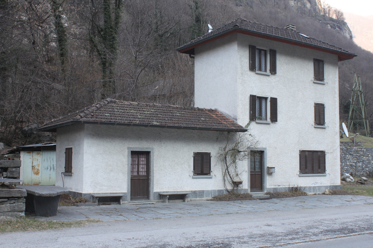 Former train station of Riveo, in service 1907-1965.